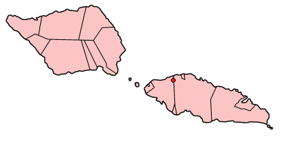 Location of the village of Leulumoega in Samoa